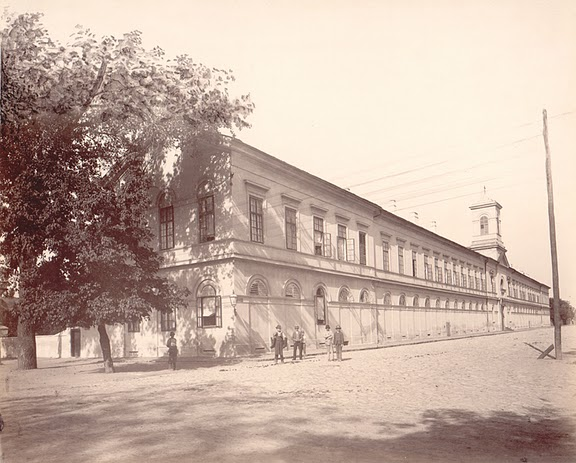 arad